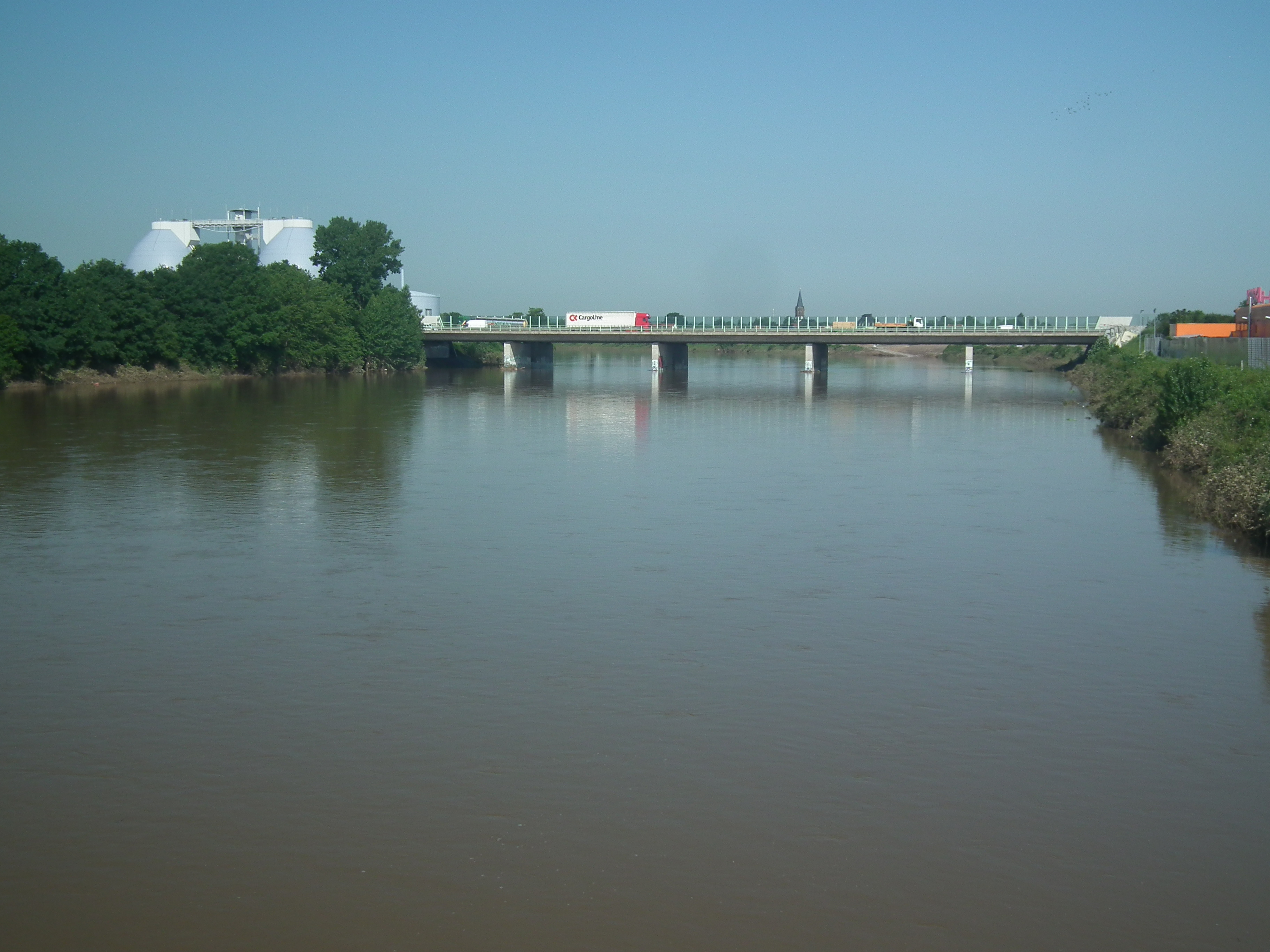 Kaditzer Flutrinne in Dresden at 12. Juni 2013